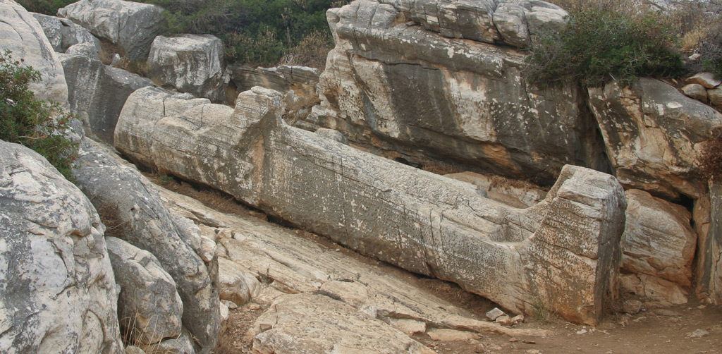 Unfinished Kouros of Apollonas, Naxos, Greece